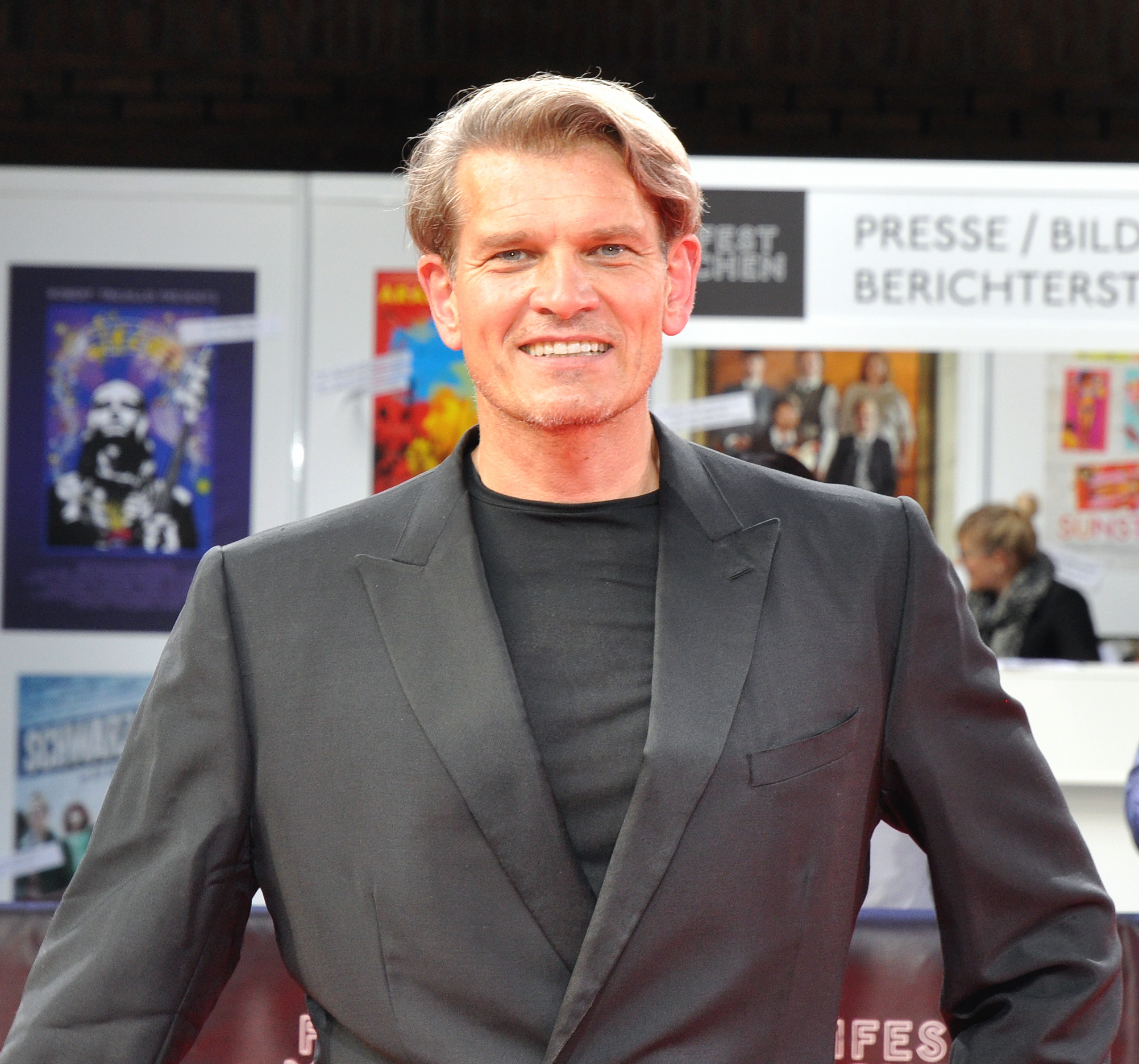 Götz Otto at Munich Filmfestival 2015